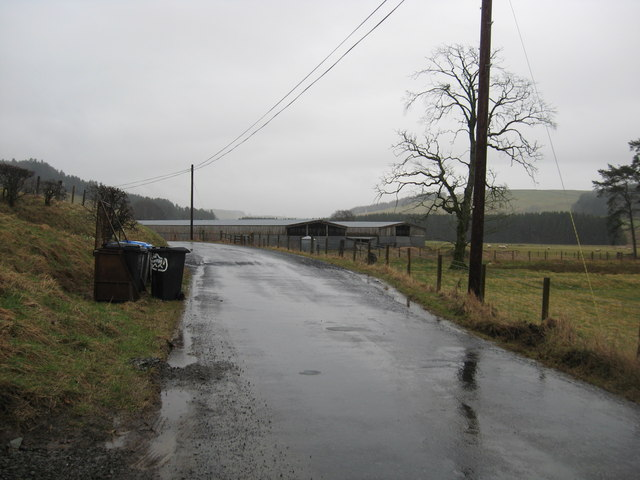 Road heading back to Burnfoot Farm